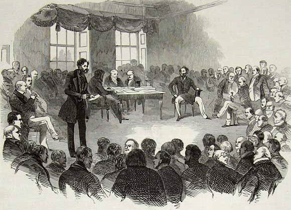 Illustrated London News, 7 Jan 1848 lithograph of interior of Wolverhampton Assembly Rooms which were on the first floor of the County Court Building, built 1829. Ching Lau Lauro performed in this room in 1834.